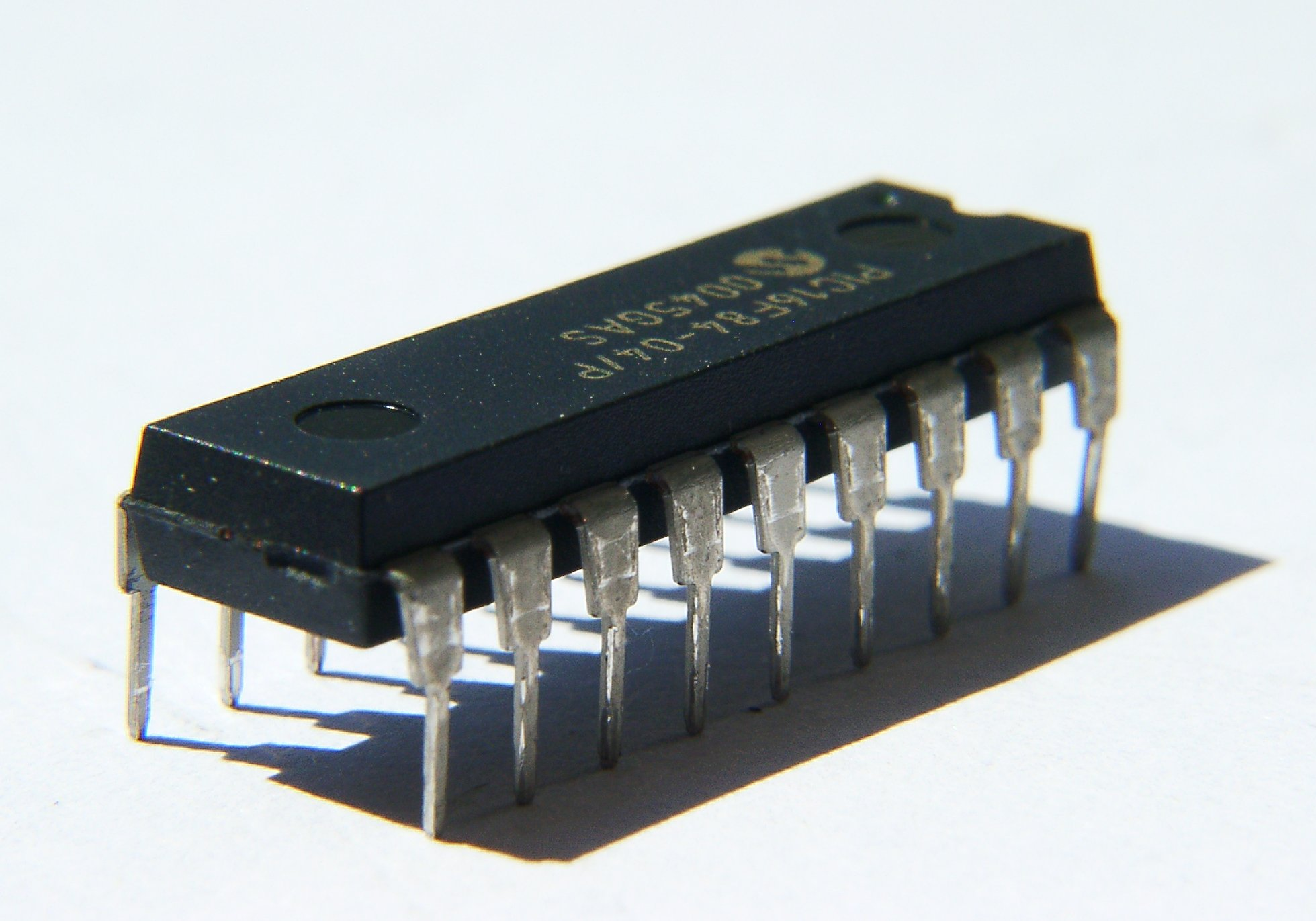 PIC16F84 microcontroller in DIP.